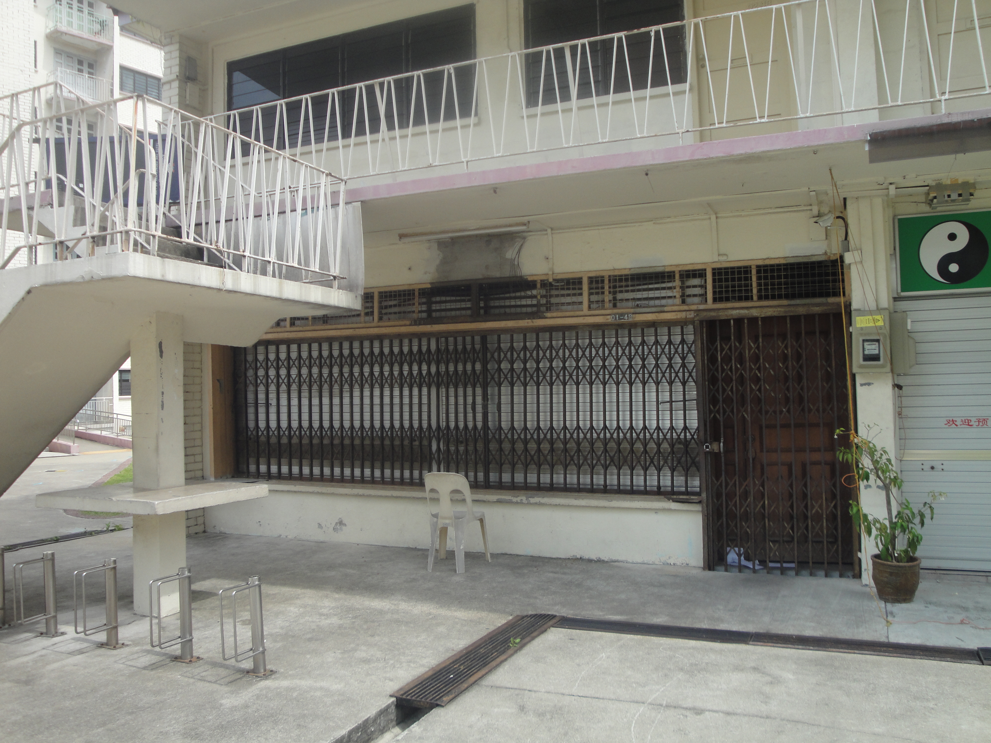 Old Tian Kee and Co